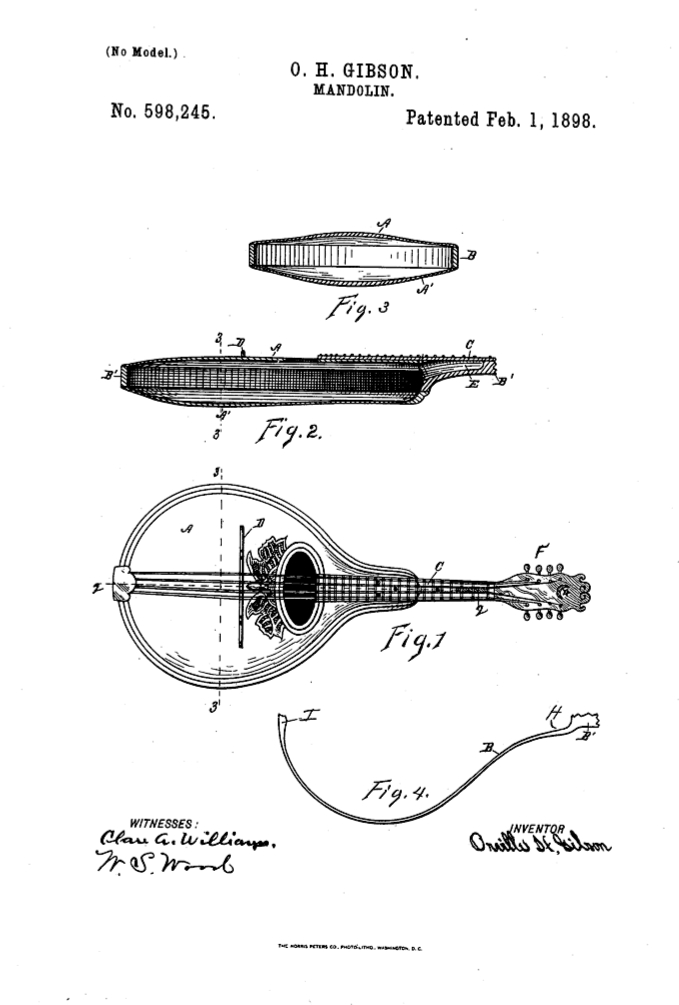 US Patent No. 598.245, patent drawing for archtop mandolin construction as invented by Orville Gibson